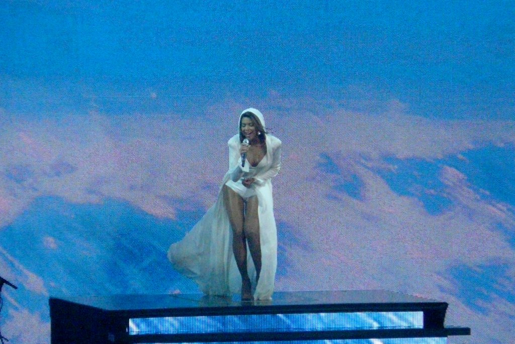 Smash Into You